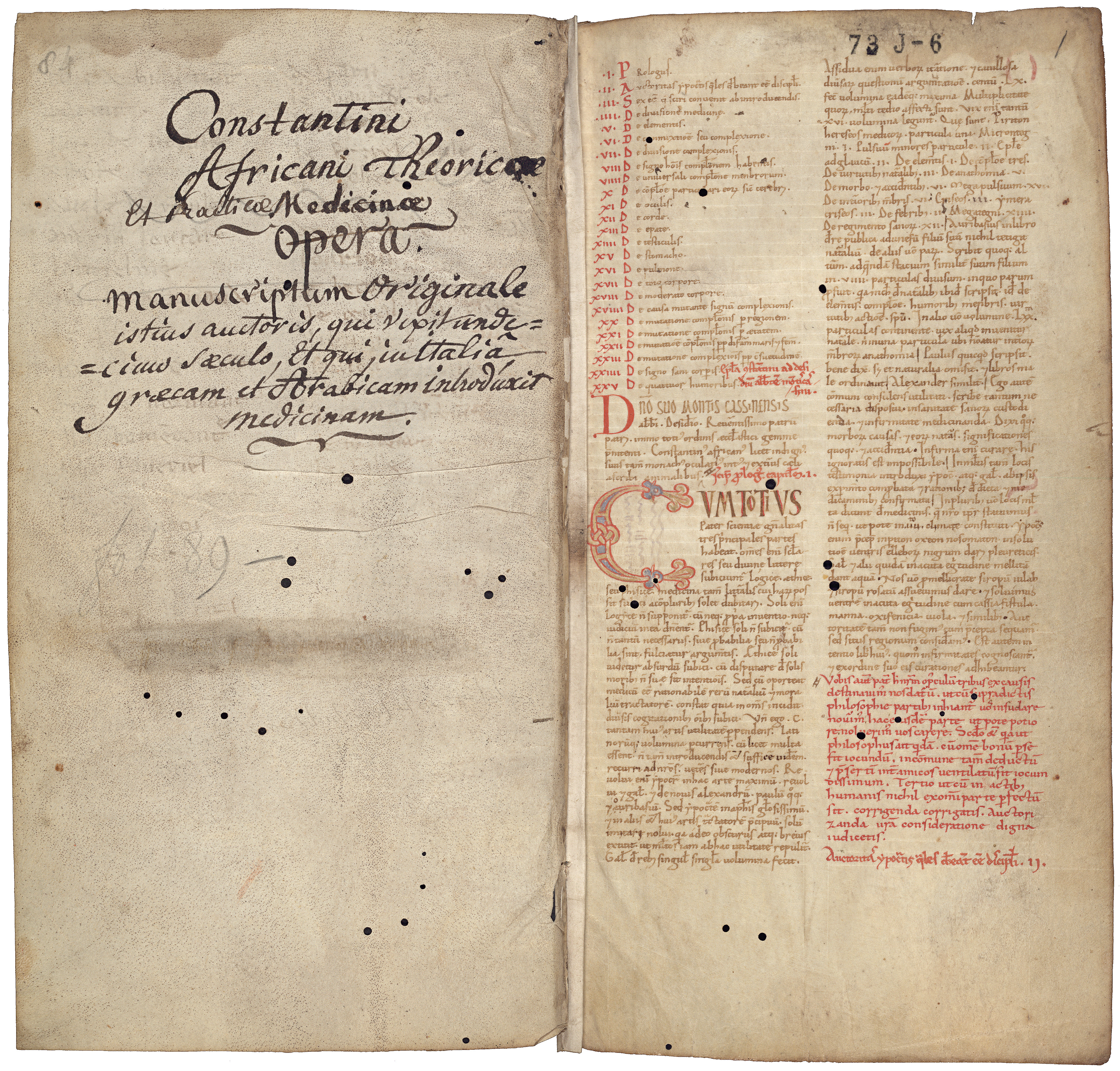 Lefthand side folio viii; righthand side folio 001r from an 11th century copy of the Liber pantegni The black circles are holes created by worms eating away at the parchment sometime during the nine and a half centuries since it was written This is the earliest known copy (prior to 1086) of the Liber pantegni, made at Monte Cassino under the supervision of Constantine the African It is dedicated to Abbot Desiderius of Monte Cassino (1027-1087), before he became Pope Victor III Folio 1r, middle of left column: Cum totius pater scientiae generalitas tres principales partes habeat [...] Read backgroud information in Dutch and in English